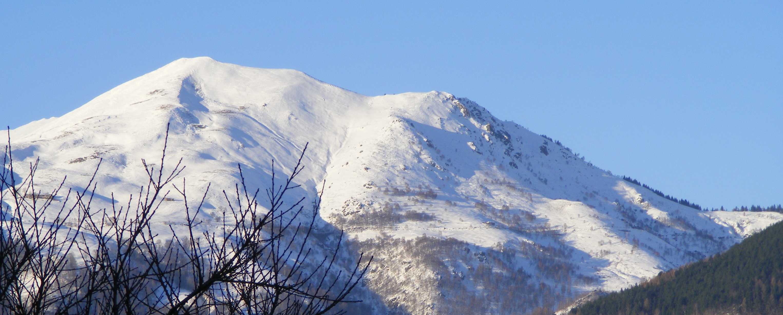 Mount Monticchio fron Colma (Piedmont, Italy)